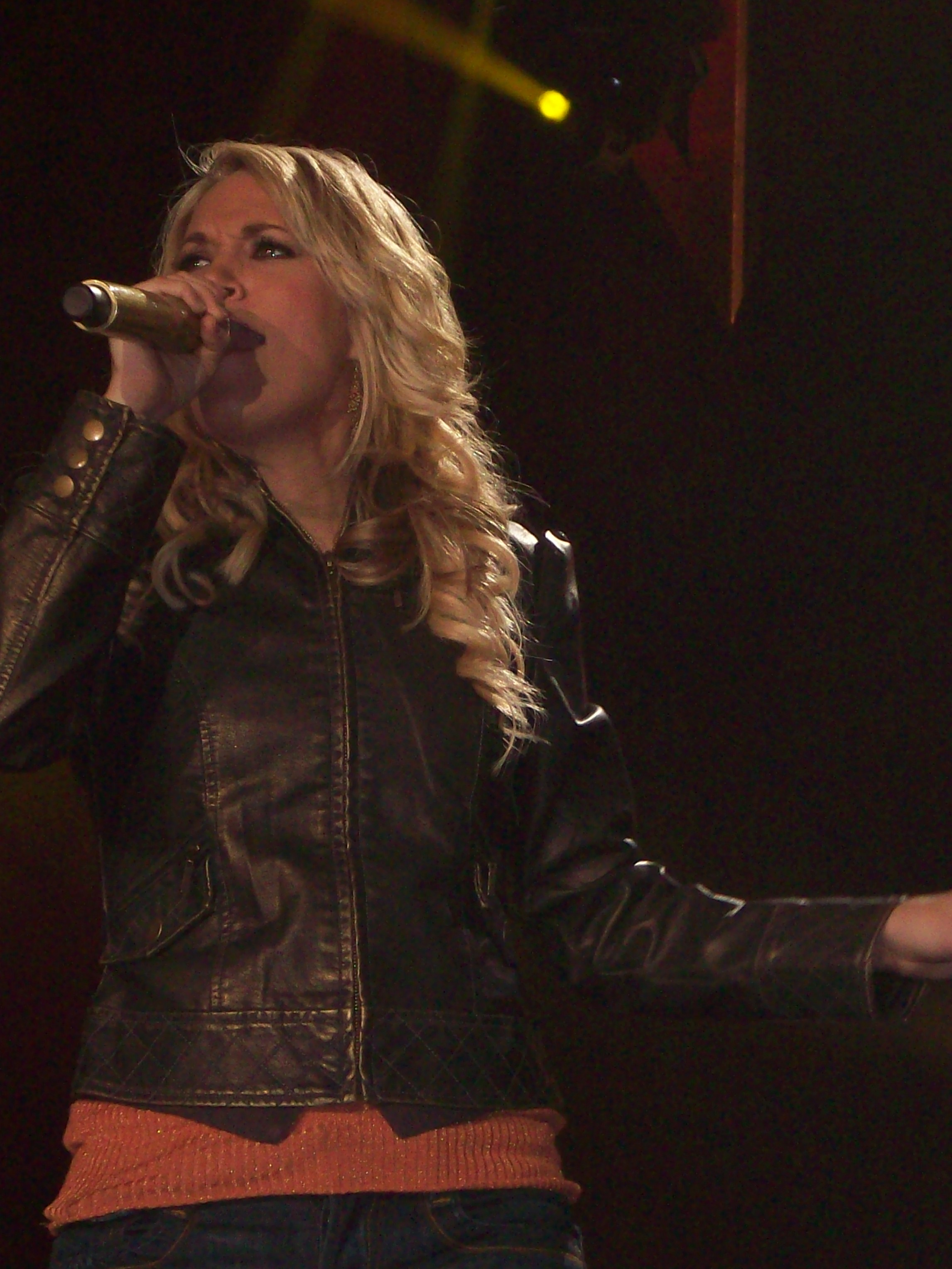 carrie underwood...little big town 273